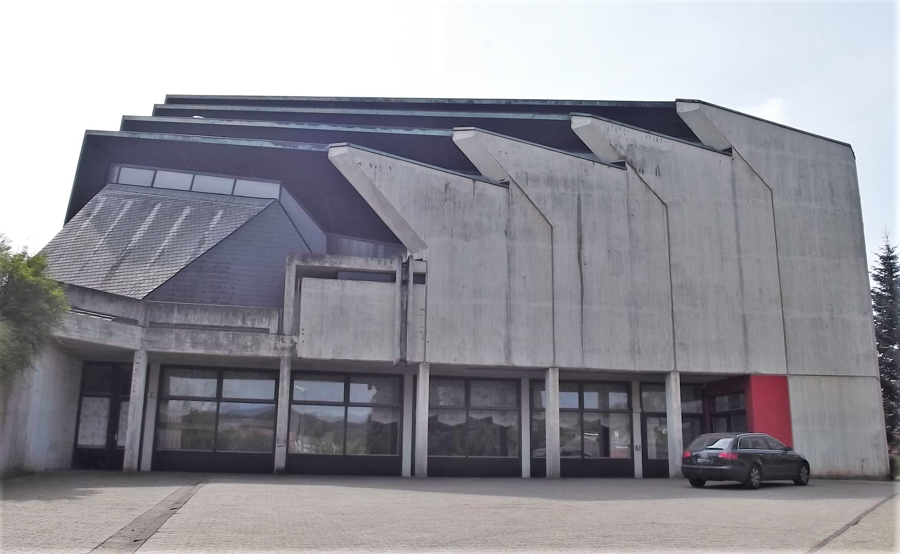 Exterior of the new roman catholic church in Primstal, Saarland